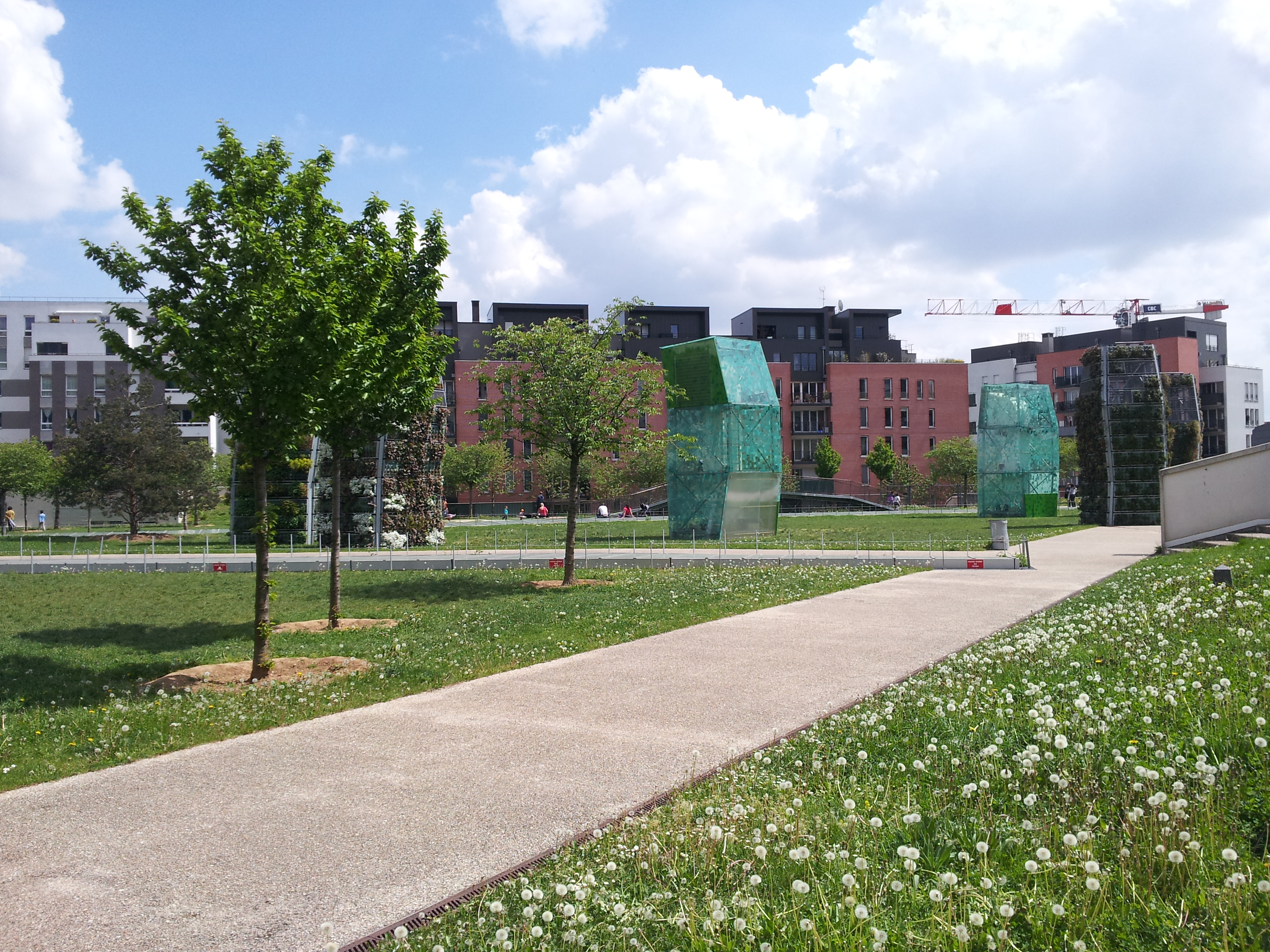 Vache-Noire 06